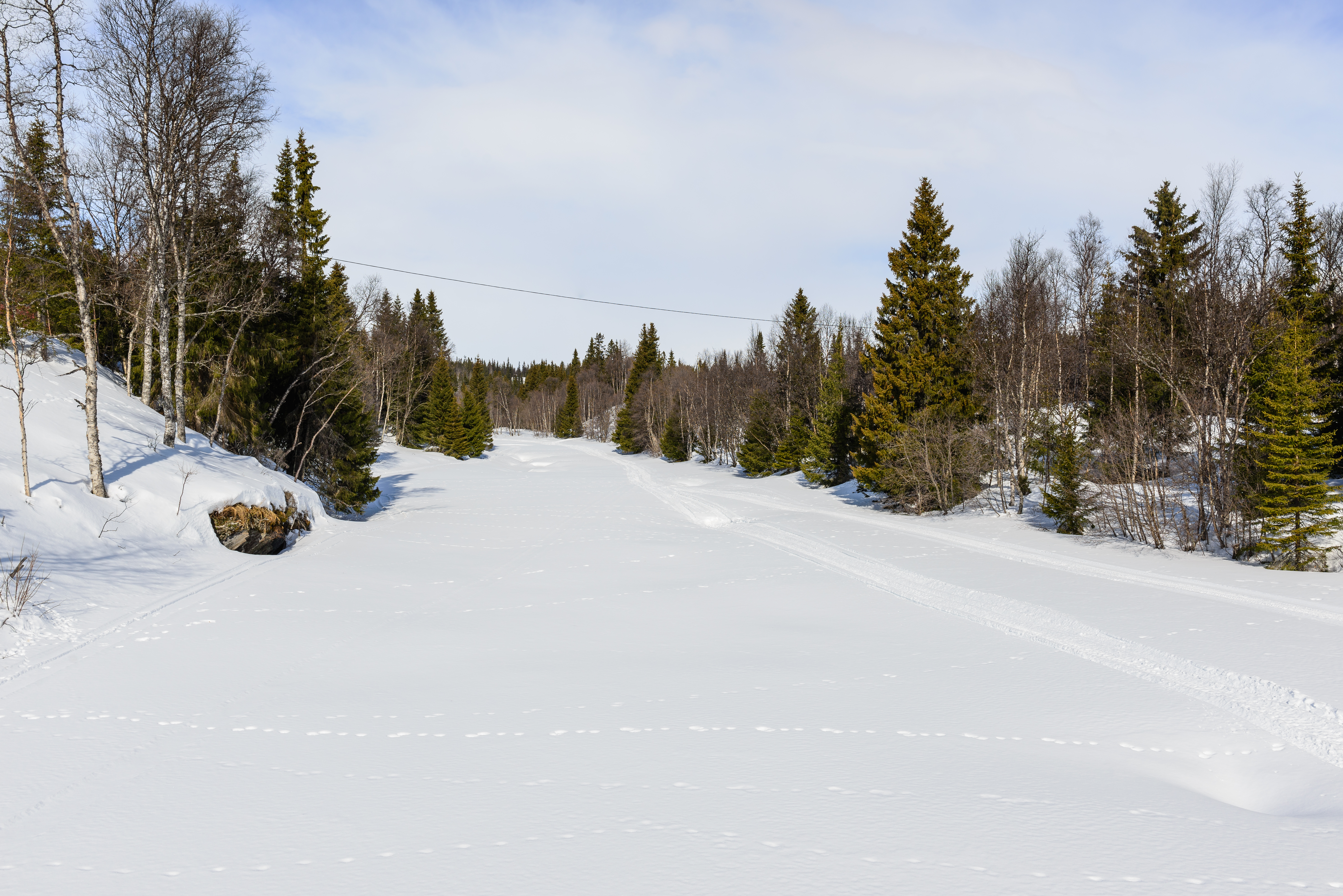 Ljungan covered in ice and snow.